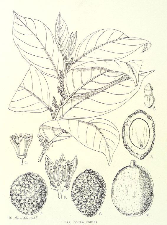 Coula edulis. ; 1. Flowering branch (nat. size). ; 2. Flower (enlarged). ; 3. Section of flower (enlarged). ; 4. Fruit (nat. size). ; 5. and 6. Fruit with fleshy exocarp removed (nat. size). ; 7. Section of friut with fleshy exocarp removed (nat. size). ; 8. Embryo (enlarged)